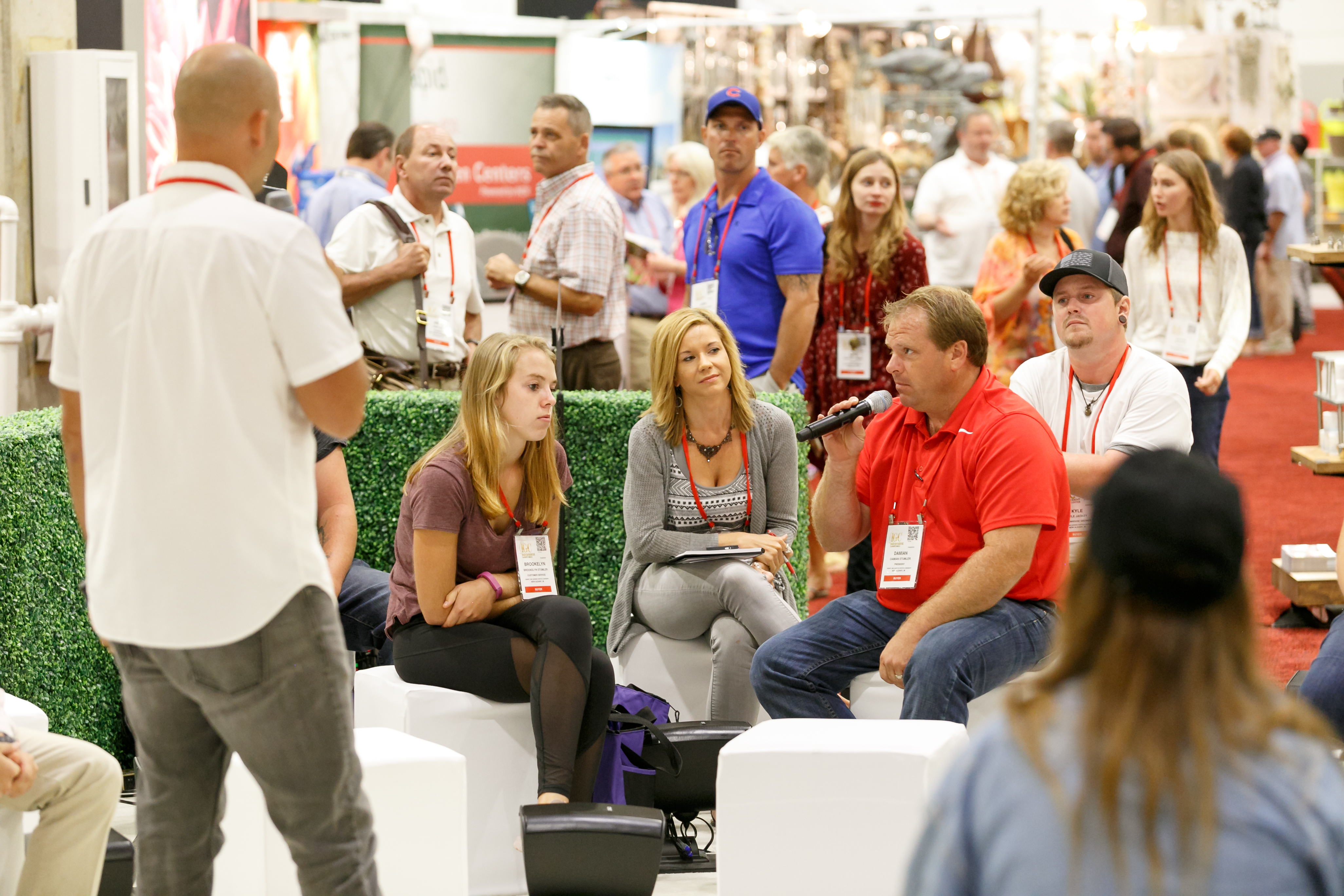 IGC retailers express their opinions with their peers in the IGC Networking Lounge on topics most relevant to garden retailing.